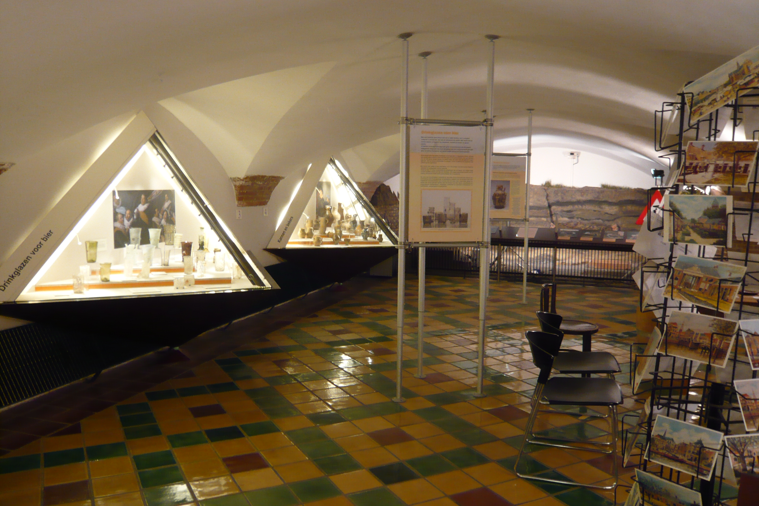 Archeologisch Museum Haarlem. Interior view of display cases and reconstruction of an archeological dig of a cesspit.